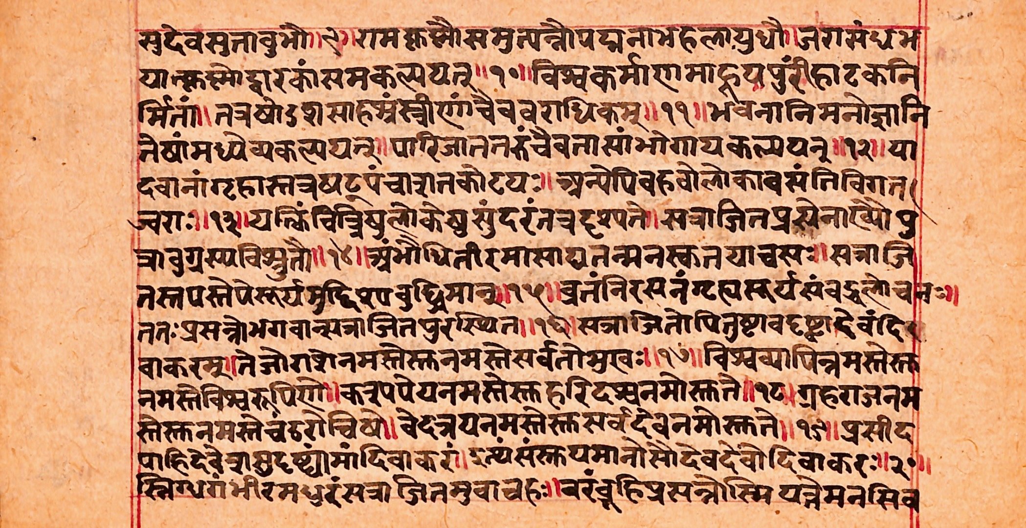 This is a page from the Skanda Purana manuscript. Language: Sanskrit Script: Devenagari This manuscript was acquired in the 19th-century, and was produced in or before the acquisition. The photo above is of a 2D artwork from the text that was itself authored more than 500 years ago. Therefore Wikimedia Commons PD-Art licensing guidelines apply. Any rights I have as a photographer is herewith donated to wikimedia commons under CC 4.0 license.